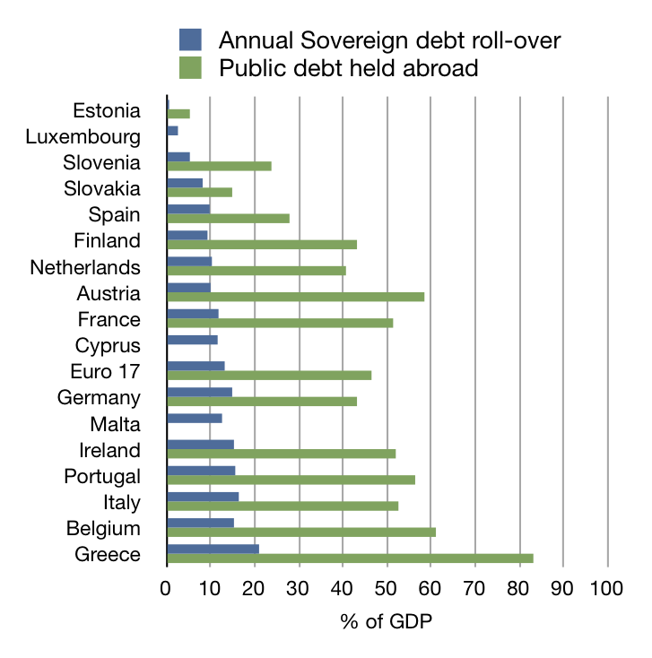 Debt profile of Eurozone countries, showing annual sovereing debt roll-over and public debt held abroad in % of GDP Data seems to be position at end of 2010.